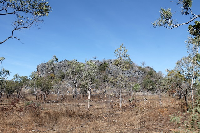 Chillagoe Mungana National park